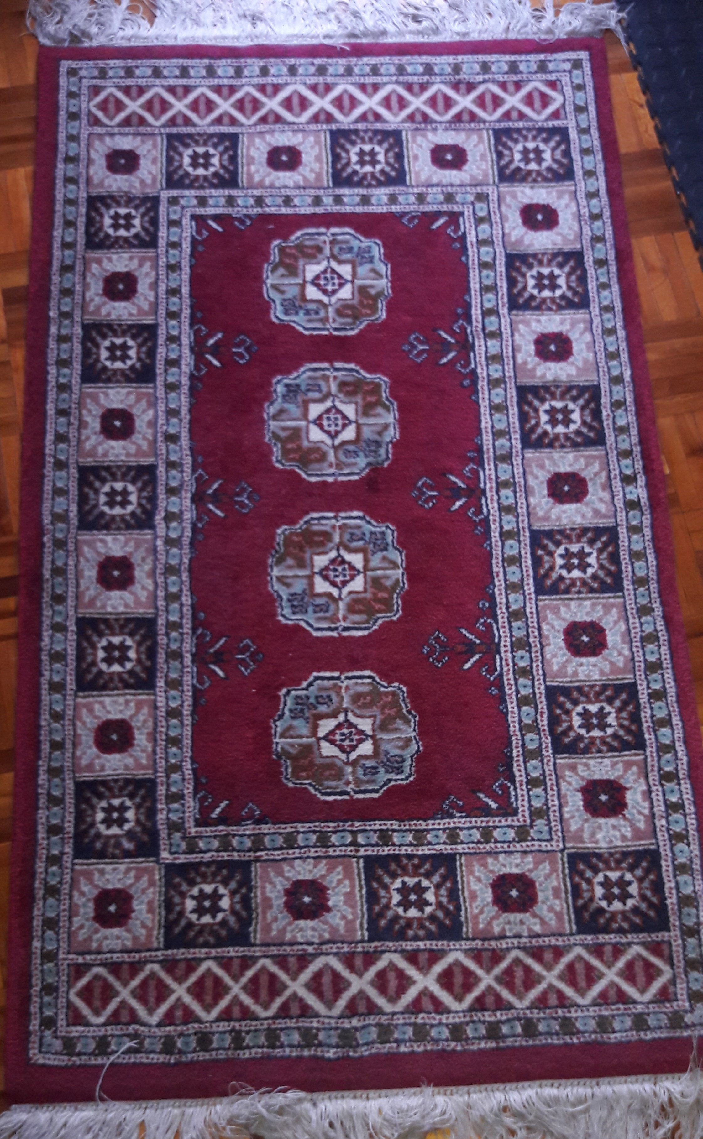 Handwoven Bokhara rug made by Ilinge Crafts, between mid 1980s to mid 1990s